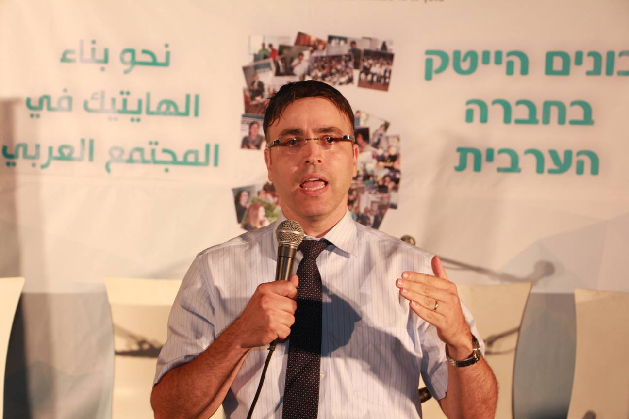 Prof. Hossam Haick